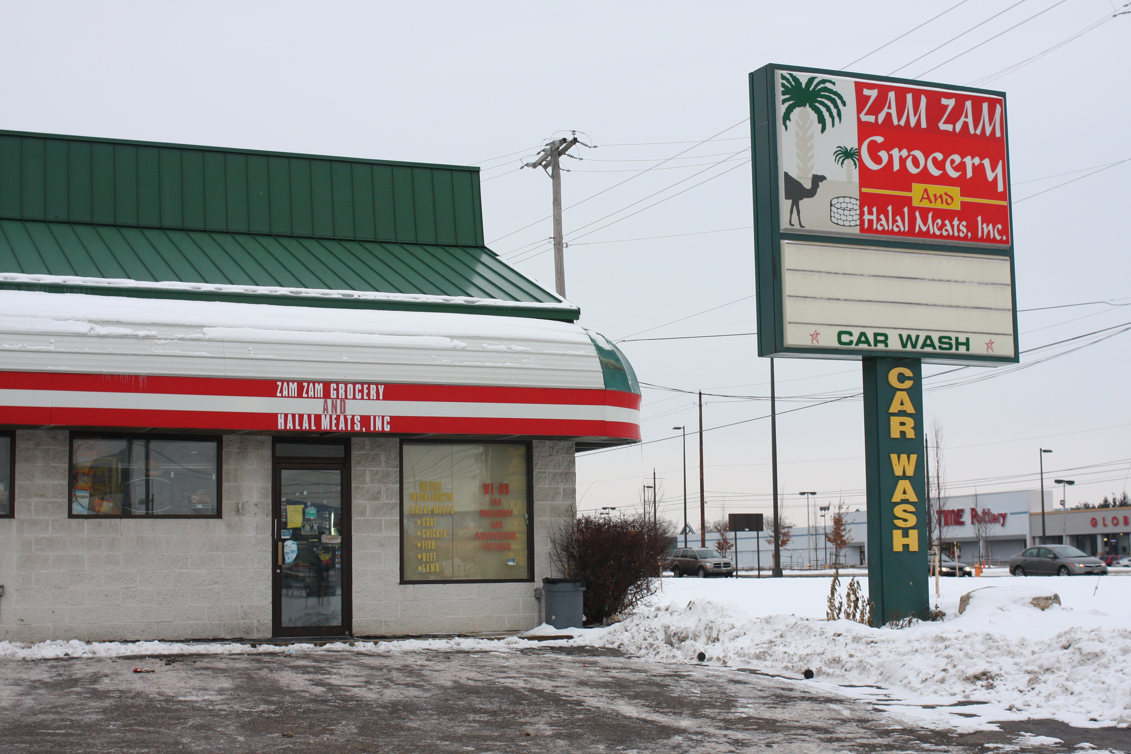 The Somali-owned Zam Zam Grocery and Halal Meats Inc. stores on Morse Road in Columbus, Ohio.